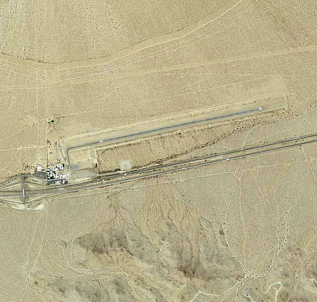 USGS digital orthophoto of Chiriaco Summit Airport in Chiriaco Summit, Riverside County, California, United States